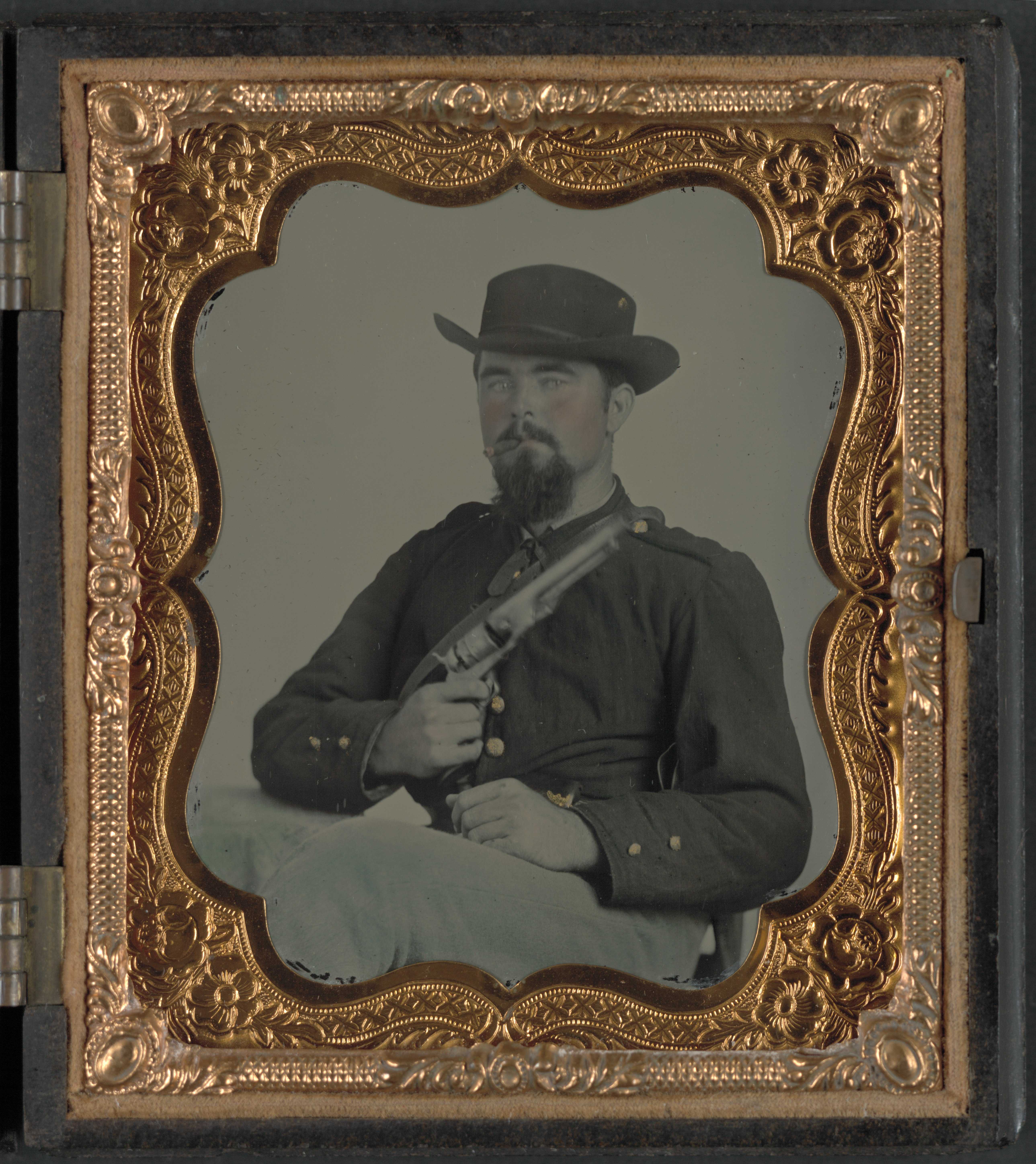 Title: Private William B. Todd of Company E, 9th Virginia Cavalry Regiment with Colt Army revolver and smoking a cigar Abstract/medium: 1 photograph : sixth-plate ambrotype, hand-colored ; 9.5 x 8.3 cm (case)